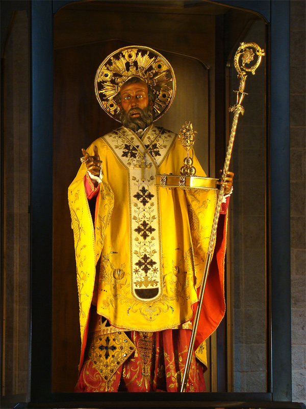 Basilica of Saint Nicholas, Bari, Apulia, Italy. Statue of the Saint in the nave.